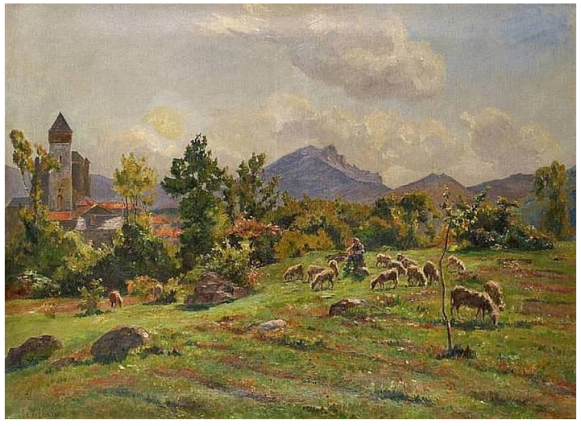 Vue de Saint-Bertrand-de-Comminges, oil on canvas, dim: 54 x 73 cm.